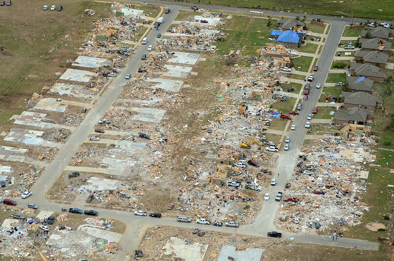 Aerial view of the Parkwood Meadows subdivision in Vilonia, Arkansas after an EF4 tornado leveled the area on April 27, 2014.